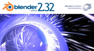 Open Screen of Blender 2.32.